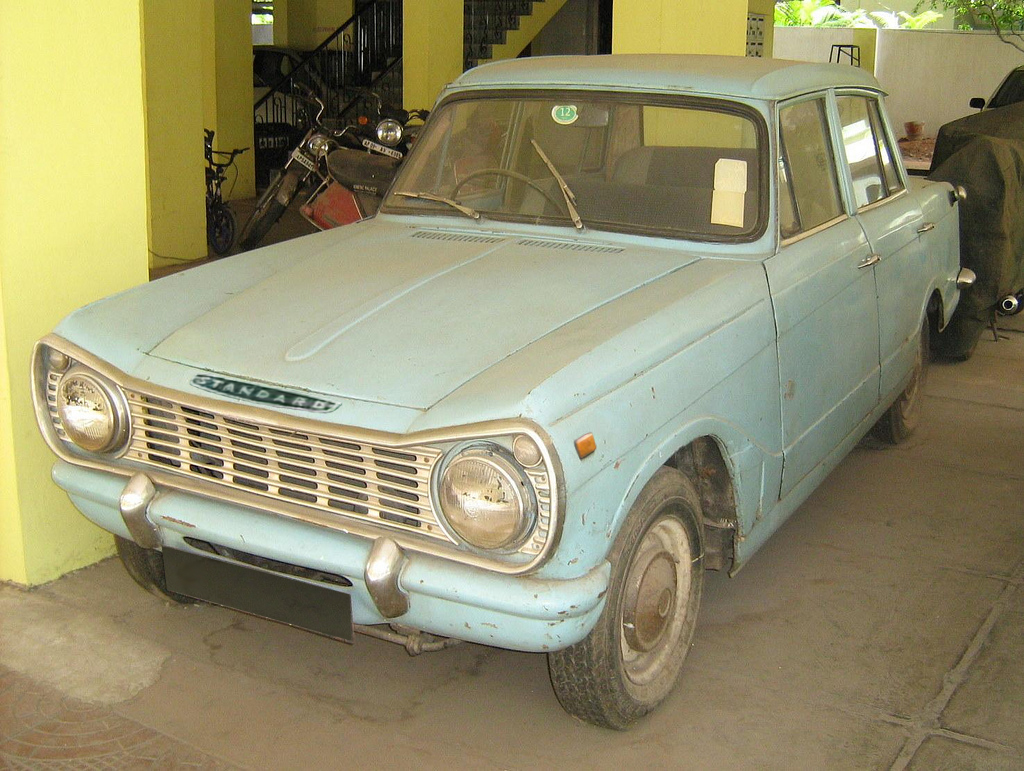 Standard Gazel mk2 (smaller bonnet rather than flip front) 'Standard' logo and turn signal added by uploader Mr.choppers Camera: Canon PowerShot A460 License on Flickr (2010-12-27): CC-BY-SA-2.0